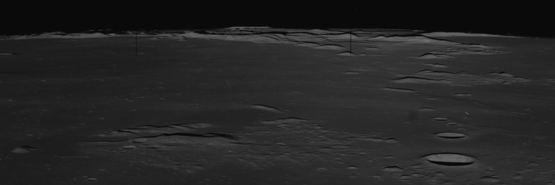 Oblique view of Montes Riphaeus (at the horizon), facing west, on the moon. The crater in the right foreground is Fra Mauro A.